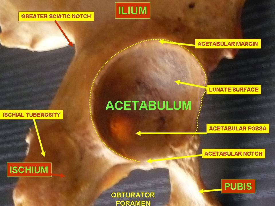 Anatomical dissections